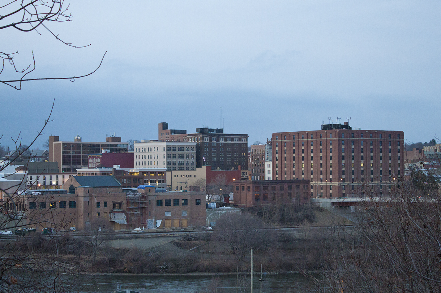 Looking north east at downtown Jamestown from Front St.